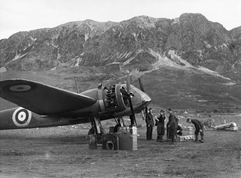 Royal Air Force Operations Over Albania and Greece, 1940-1941. Bristol Blenheim Mark I, L1434, of No. 211 Squadron RAF, undergoing an engine service at Paramythia, Greece.